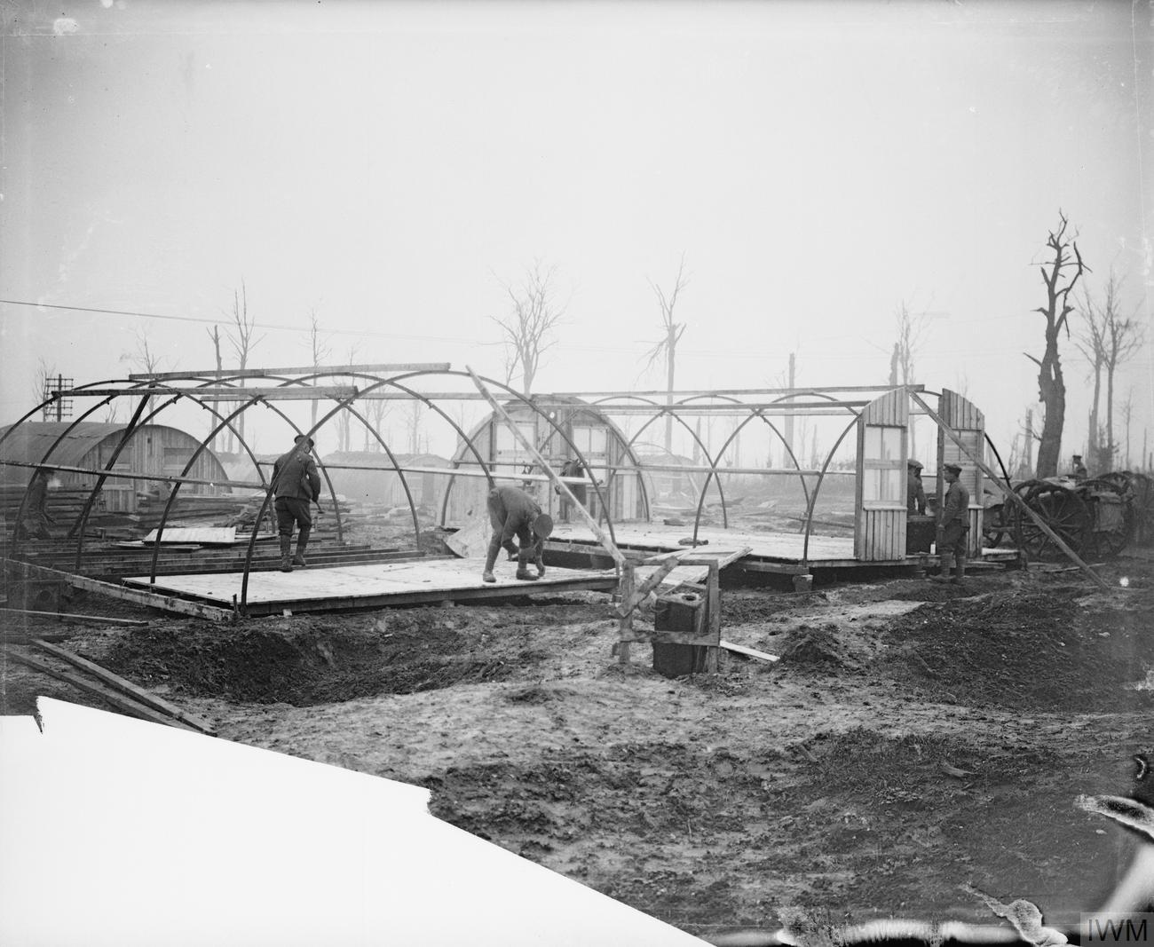 The Battle of the Somme, July-november 1916 Battle of the Ancre. British troops erecting the Nissen huts. Near Bazentin, November 1916.